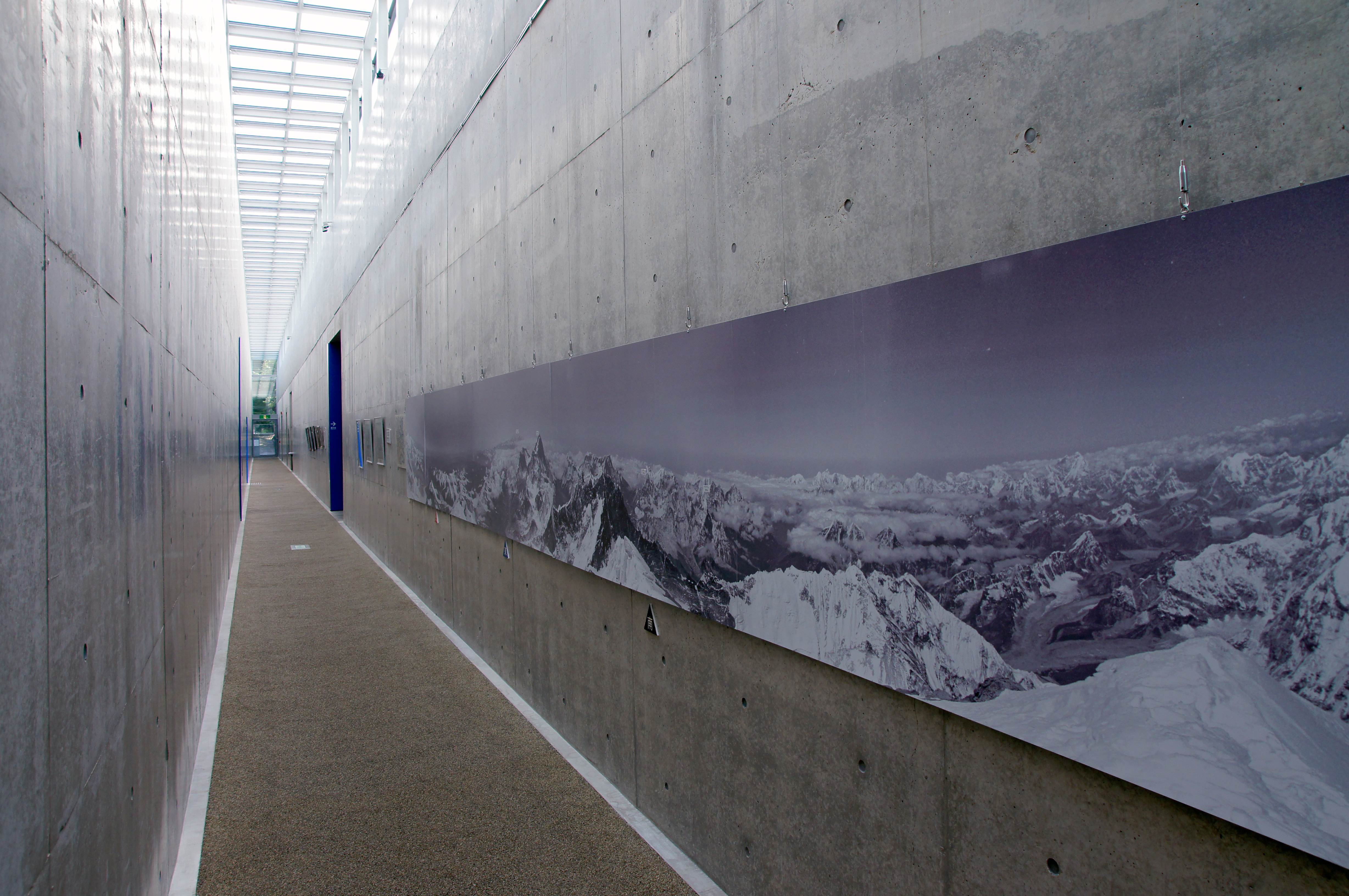 Uemura Naomi Memorial Museum in Kannabe highlands, Toyooka, Hyogo prefecture, Japan.